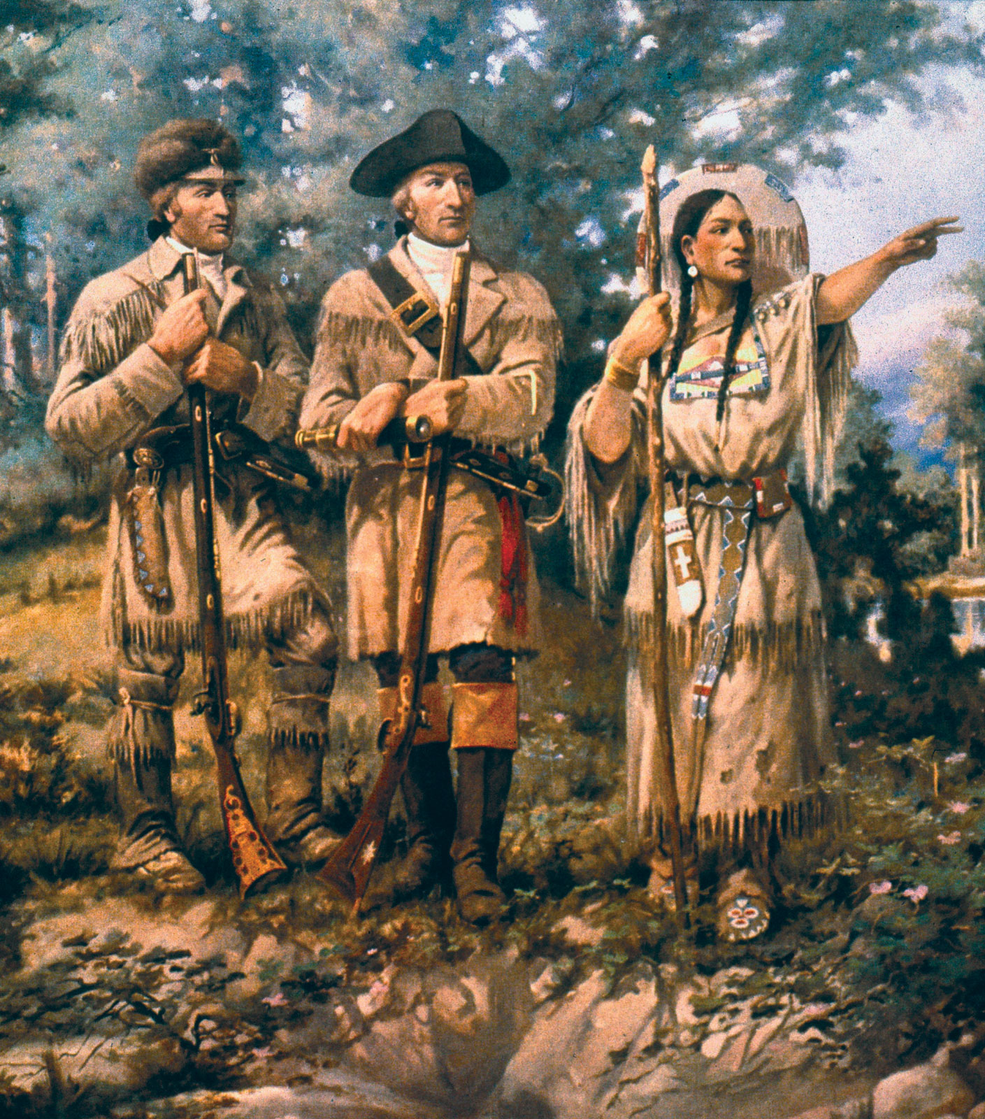 Detail of "Lewis & Clark at Three Forks", mural in lobby of Montana House of Representatives